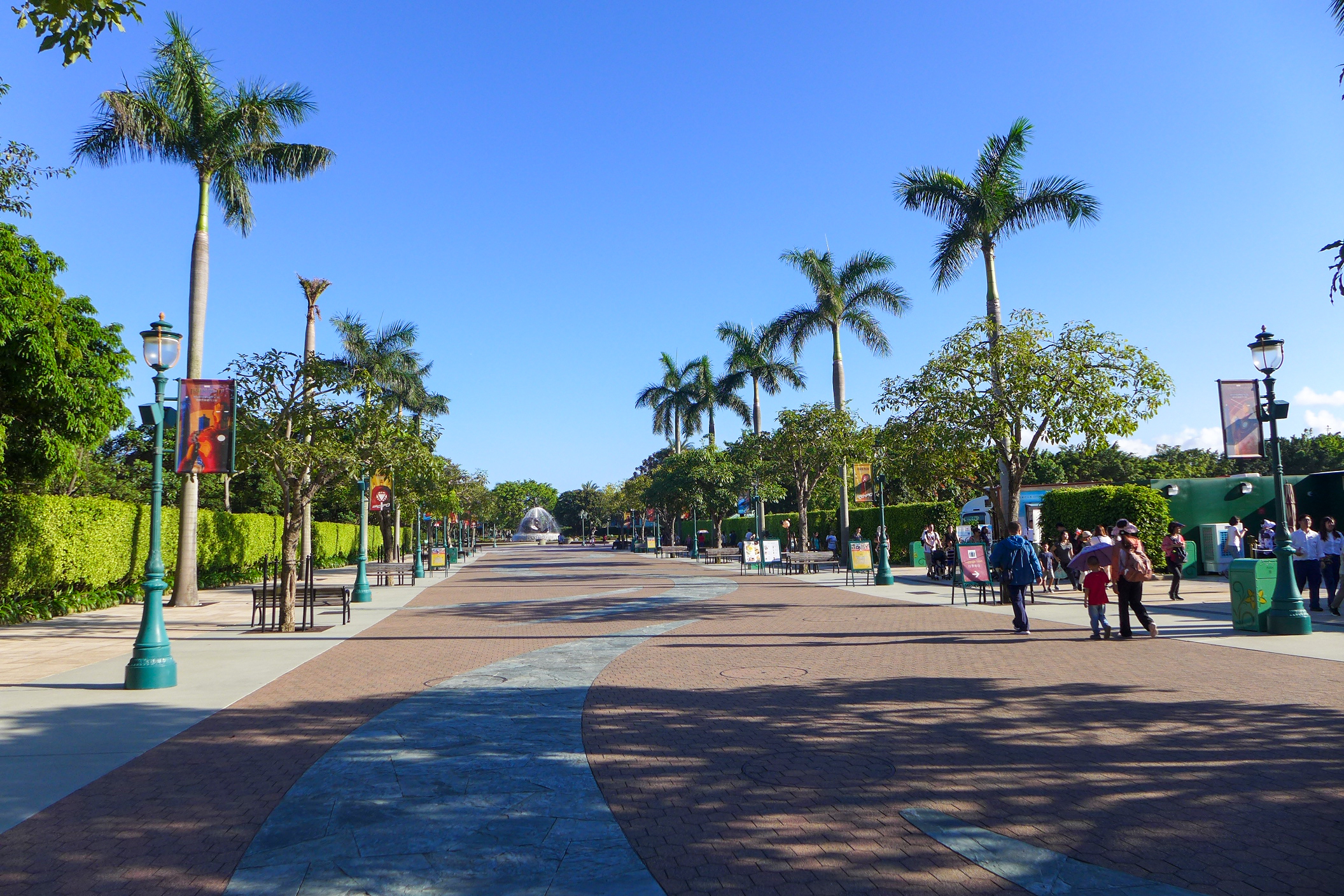 Hong Kong Disneyland Resort Park Promenade